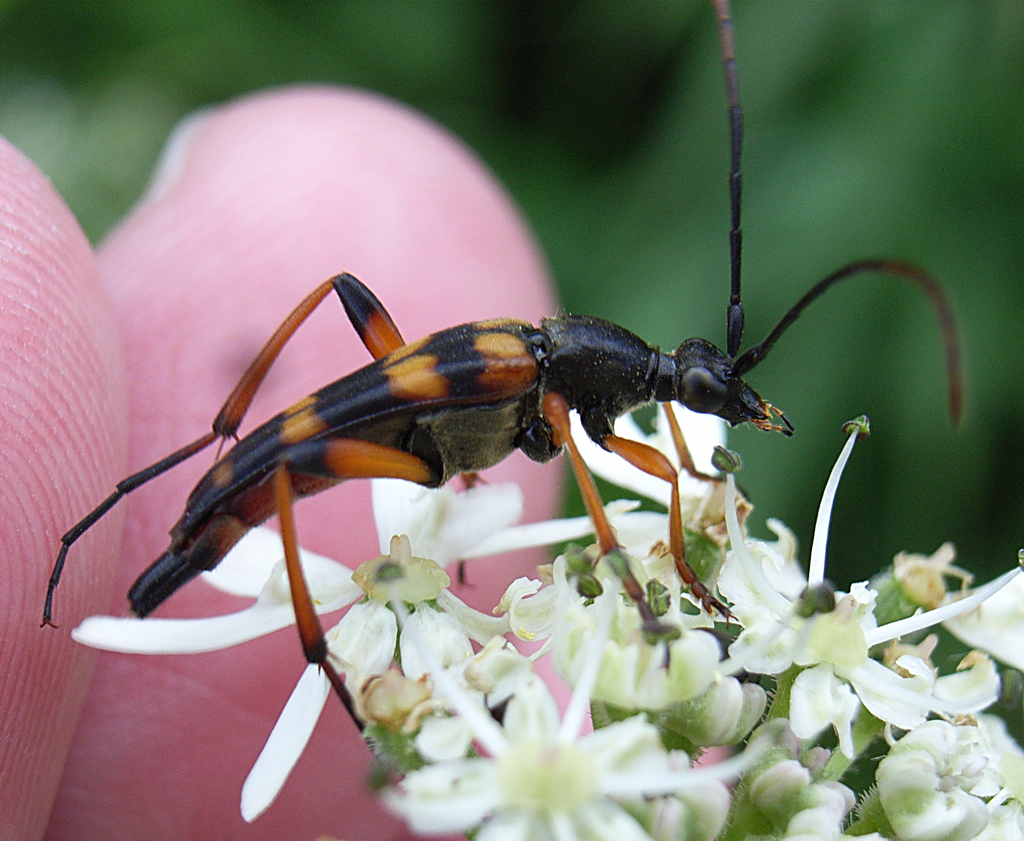 Side of Strangalia attenuata